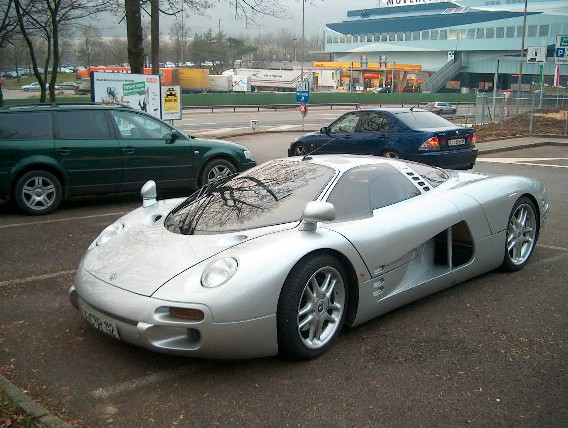 1999 Isdera Silver Arrow C112i This car, valued at US$3 million, is the only one in existence. Photographed near Bern, Switzerland.